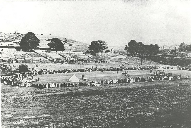 Mafeking Day celebration, Heaton Mersey, Stockport. Celebrating the British victory in South Africa.